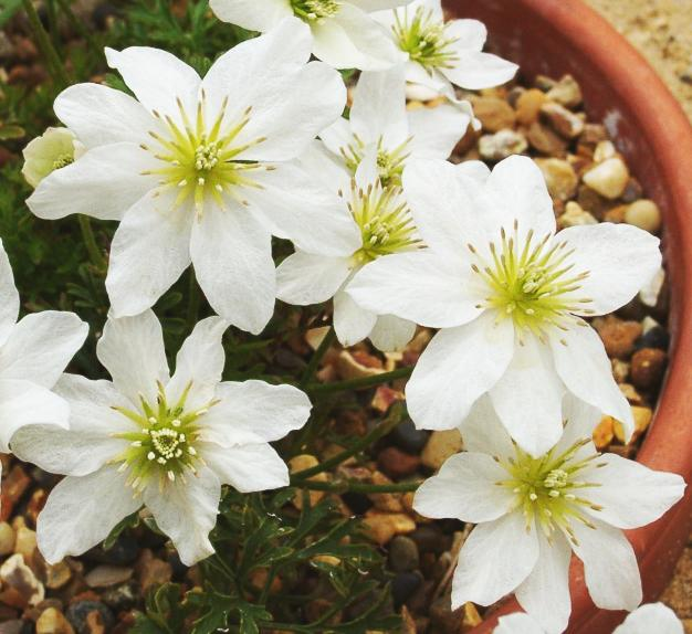 Clematis marmoraria. Photo by Ramin Nakisa.